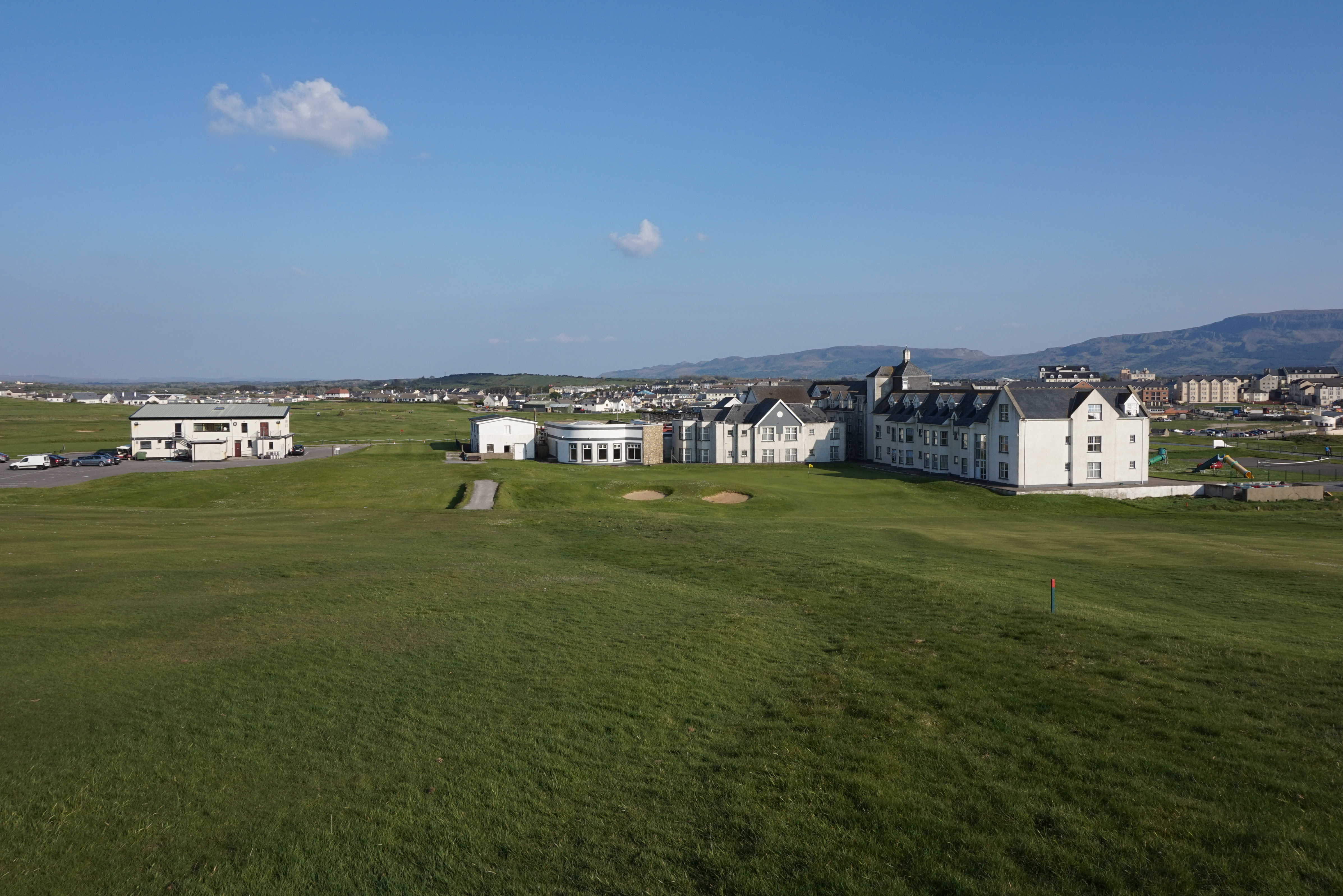 View of the Bundoran Golf Club, Bundoran, County Donegal, Ireland